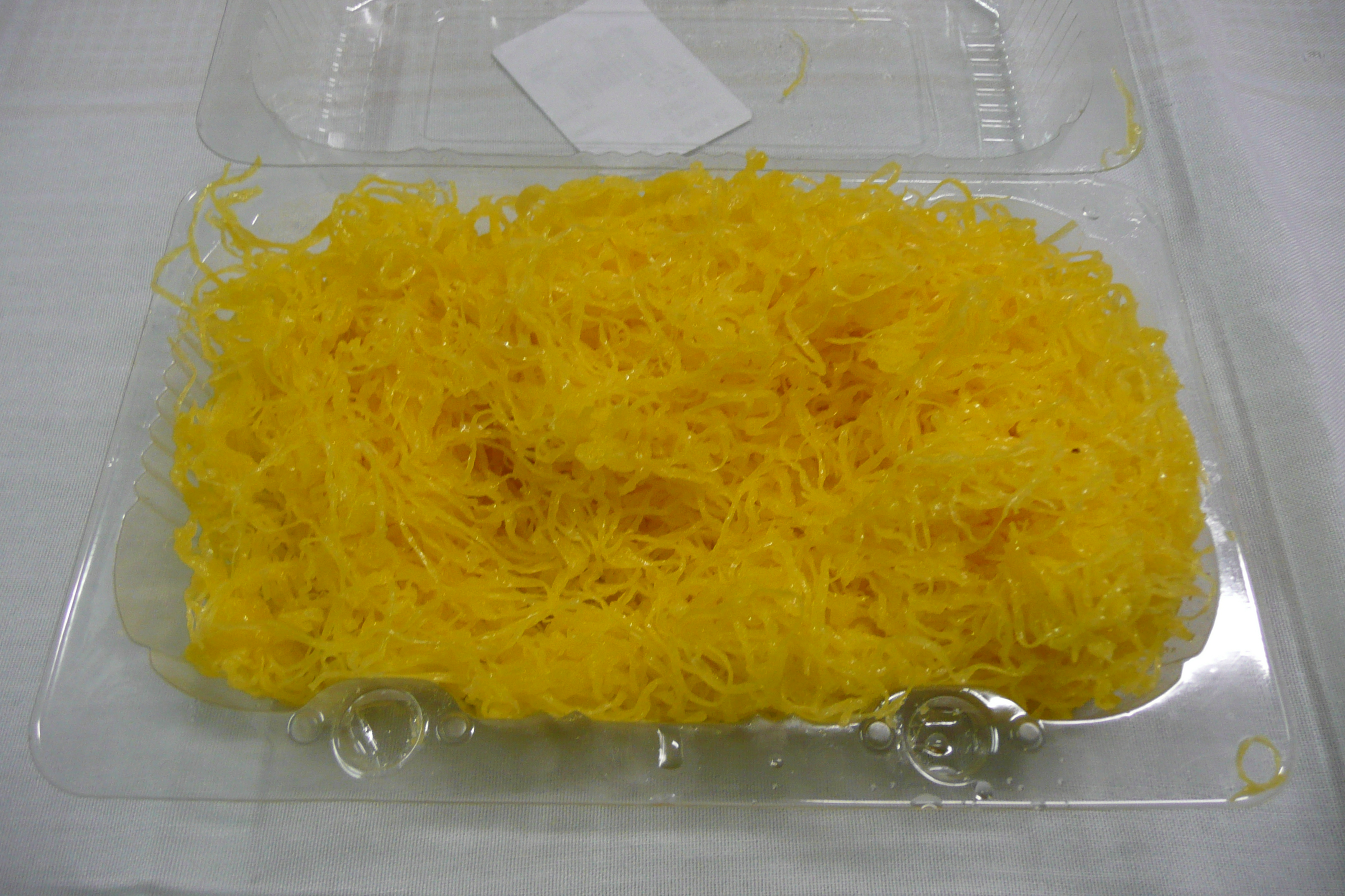 Fios de ovos bought from a confectionery in Curitiba, Brazil